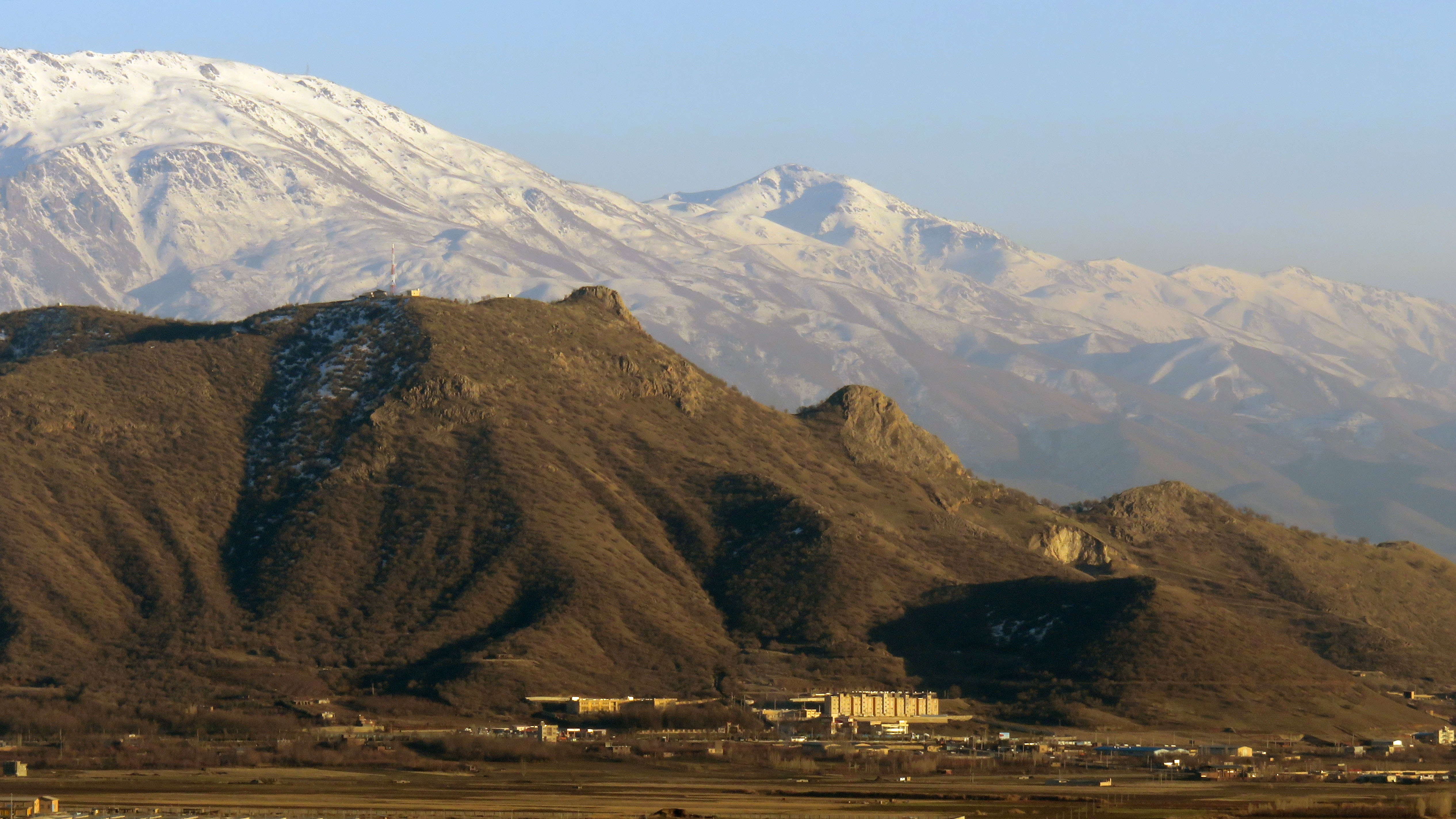 Mount Imam, Marivan, Iran. (Dec 2015)